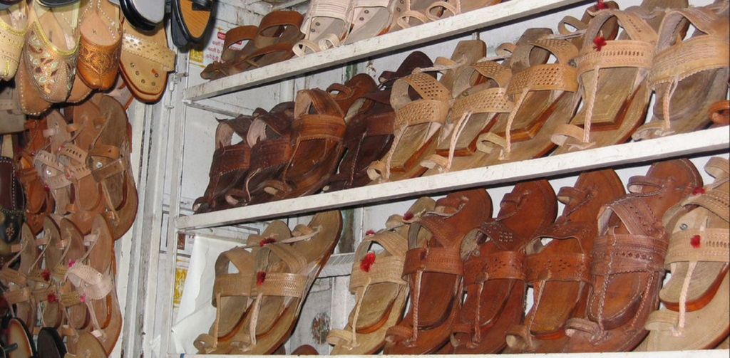 Kolhapuri foot wear (also known as Kolhapuri chappal) in Hyderabad, India